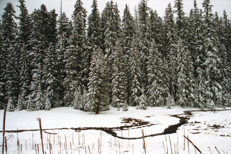 A stream runs through a snow-covered meadow before a forest of snowy trees in Apache-Sitgreaves National Forest, south of Alpine, Arizona, United States